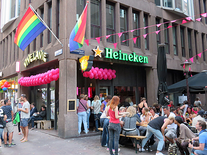 Lesbian bar Vivelavie (1980-2017) in Amsterdam, here during Gay Pride 2015.